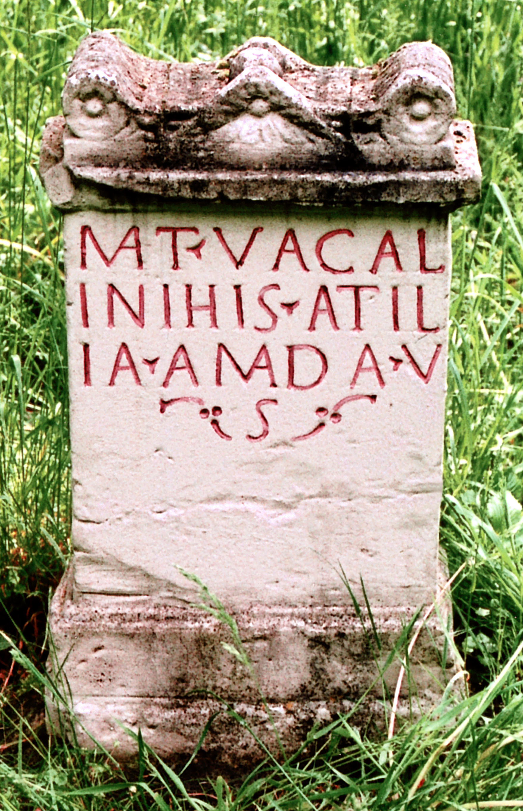 Gallo-Roman-Germanic Matres and Matrones: Replica of an altar for the Mothers of Vacallinia (Matronae Vacallinehae) from Nettersheim, North Rhine-Westphalia, Germany (CIL XIII, 12021 = ER-03-10, 00003 = Lehner 00355).